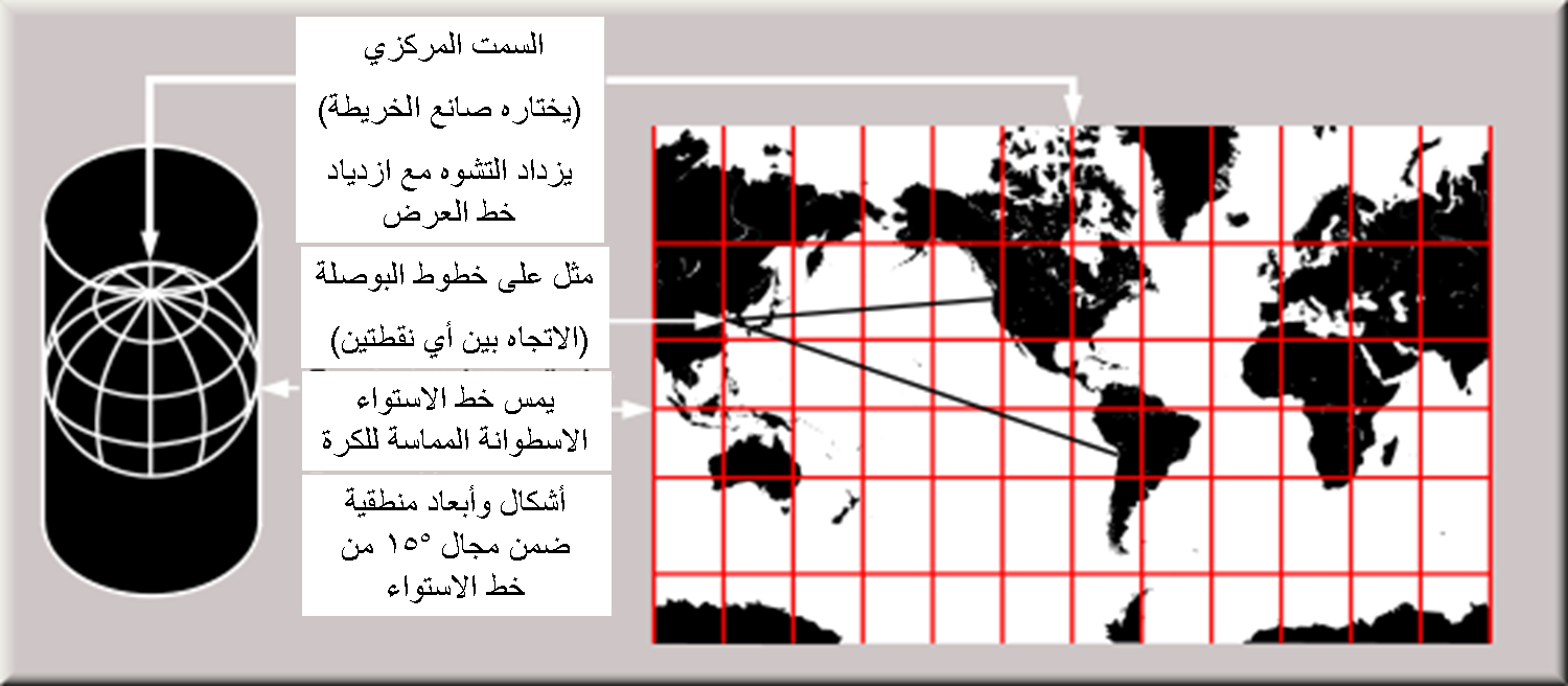 Mercator Map Projection in Arabic